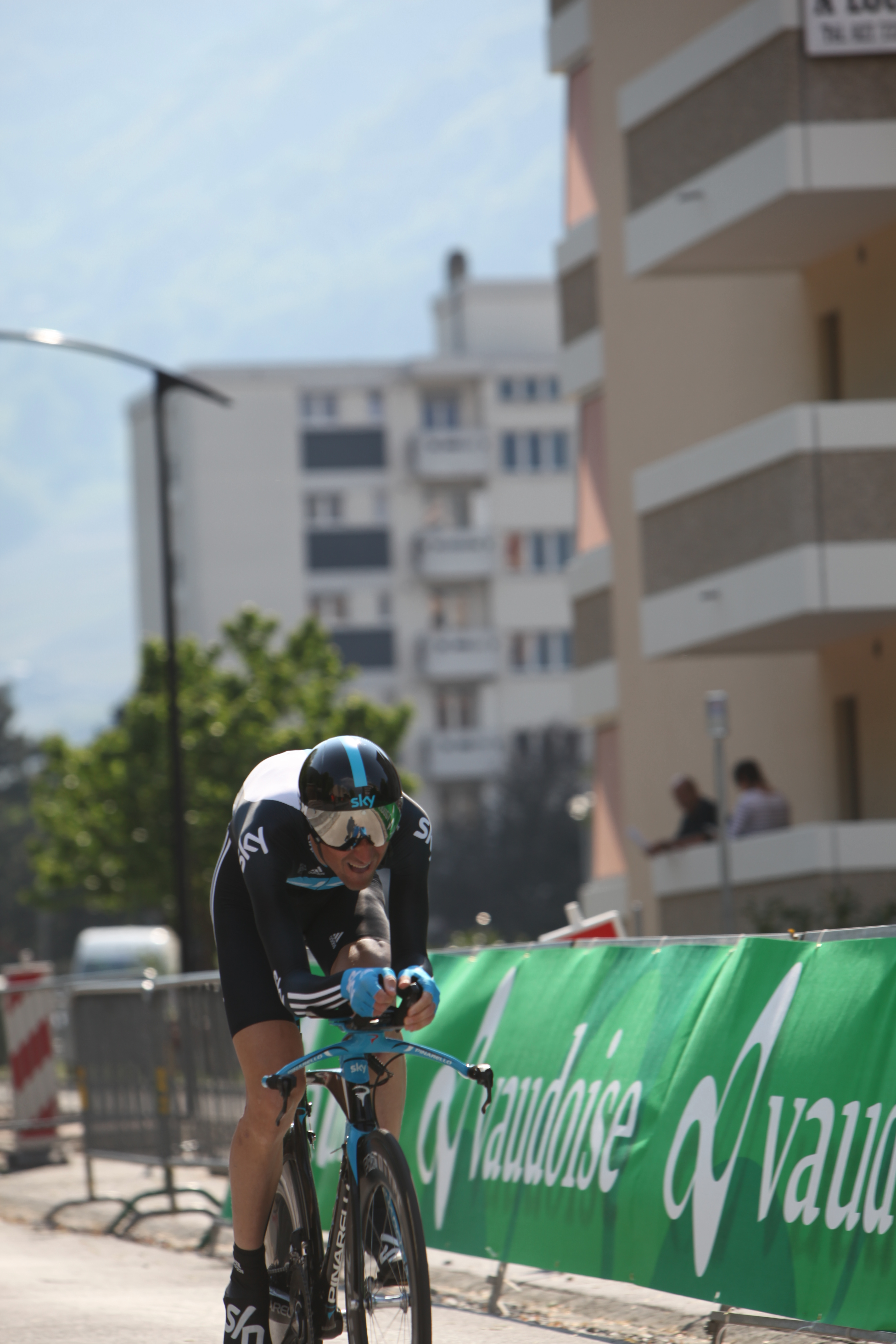 Michael Barry at the prologue of the Tour de Romandie 2011